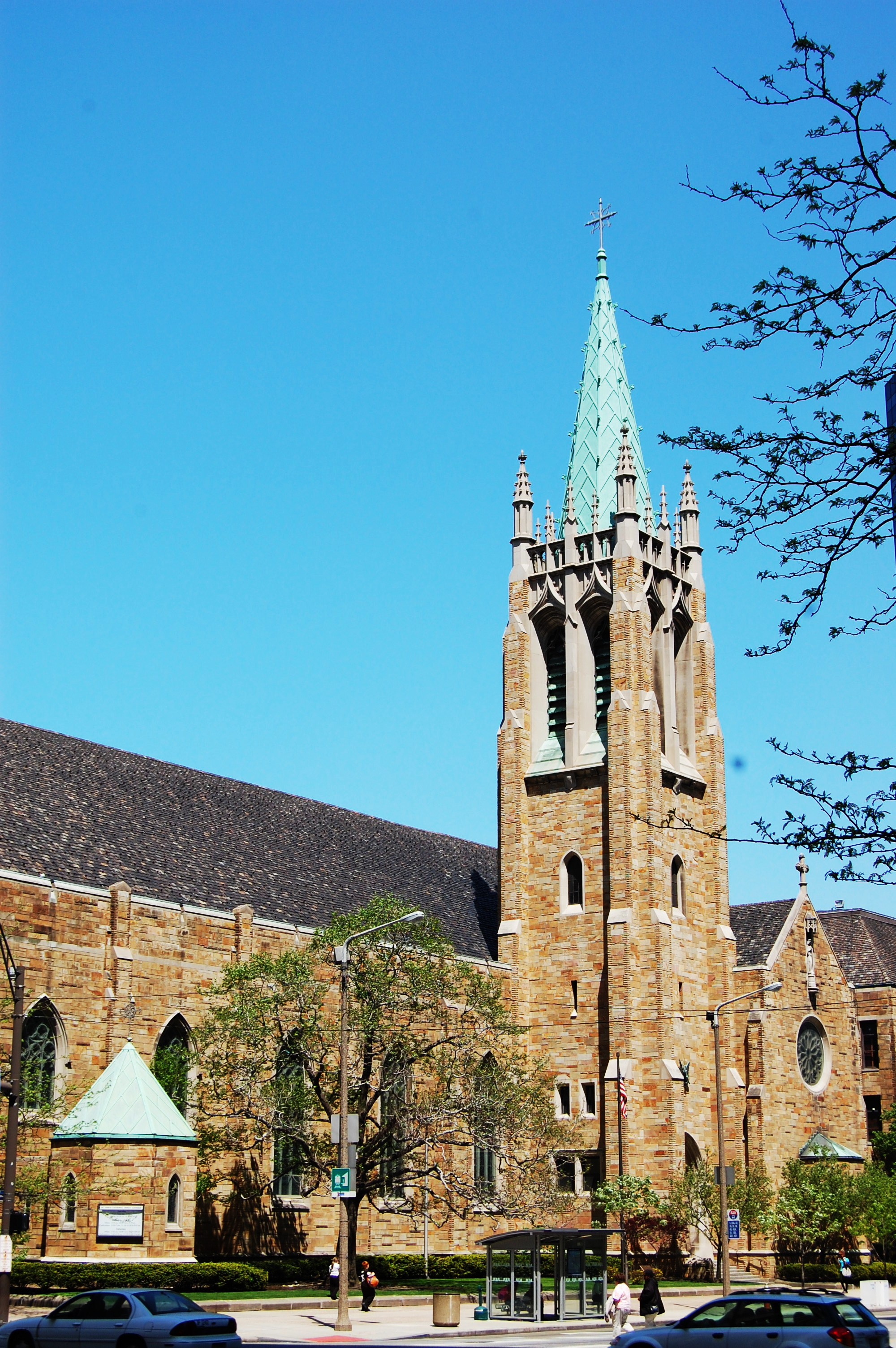 St. John's Cathedral is at the corner of East 9th Street and Superior Avenue in downtown Cleveland, Ohio.